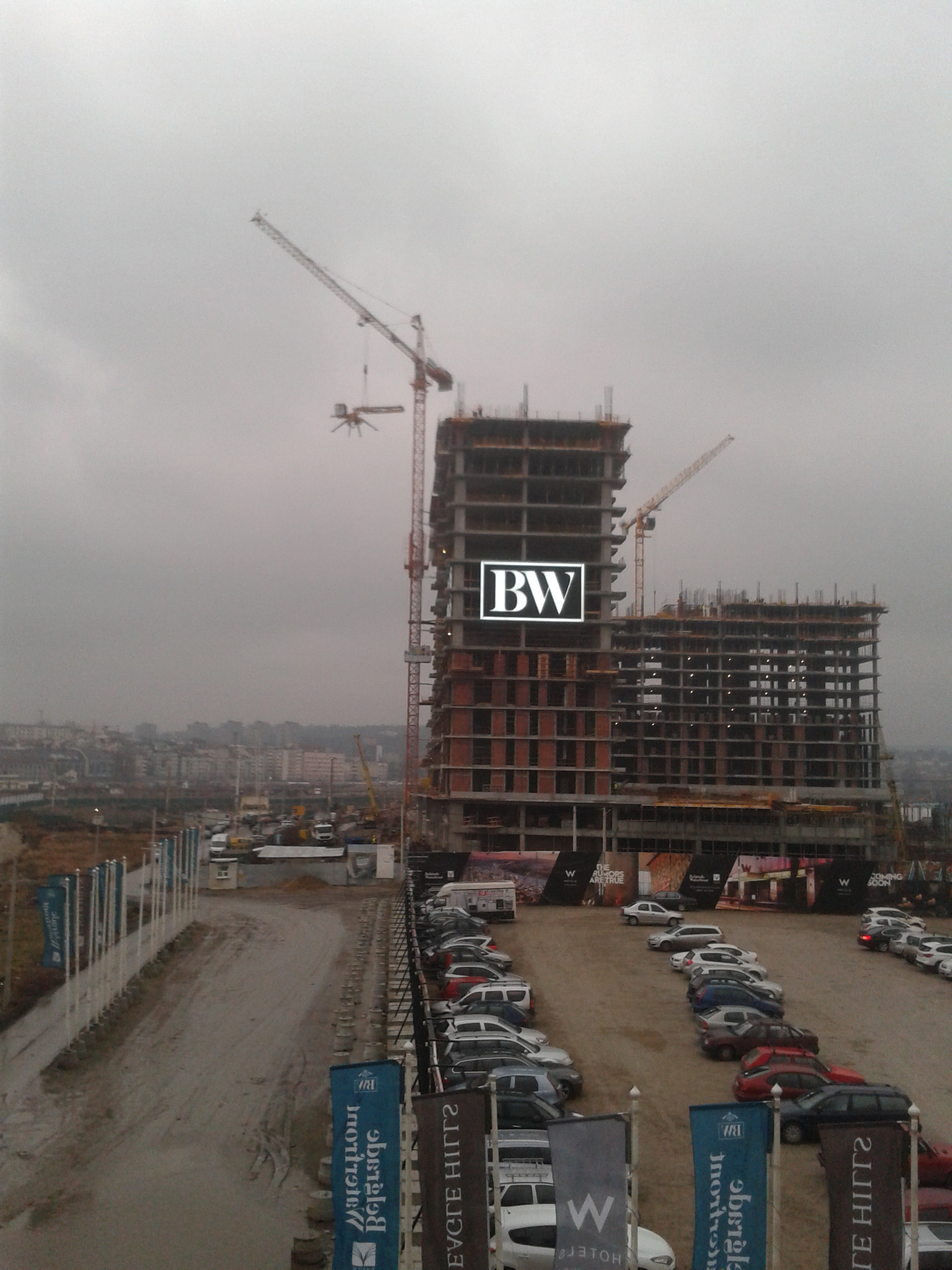 Belgrade Waterfront construction site, a crane lifting a smaller crane. BW